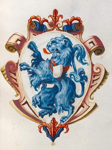 Coat of arms of the Papafava noble family.